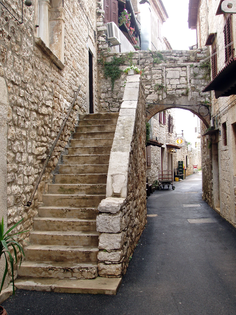 Umag, Croatia. Pedestrian street. Taken by me on September 2006. Mariano 11:52, 3 October 2006 (UTC)